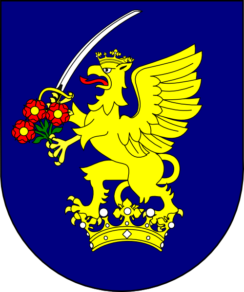 Coat of arms (shield only) of Imre Esterházy, bishop of Vác, Hungary (1706 - 1708), bishop of Zagreb, Croatia (1708 - 1722), bishop of Veszprém, Hungary (1723 - 1725), archbishop of Esztergom, Hungary (1725 - 1745). Identical with Esterházy family arms.